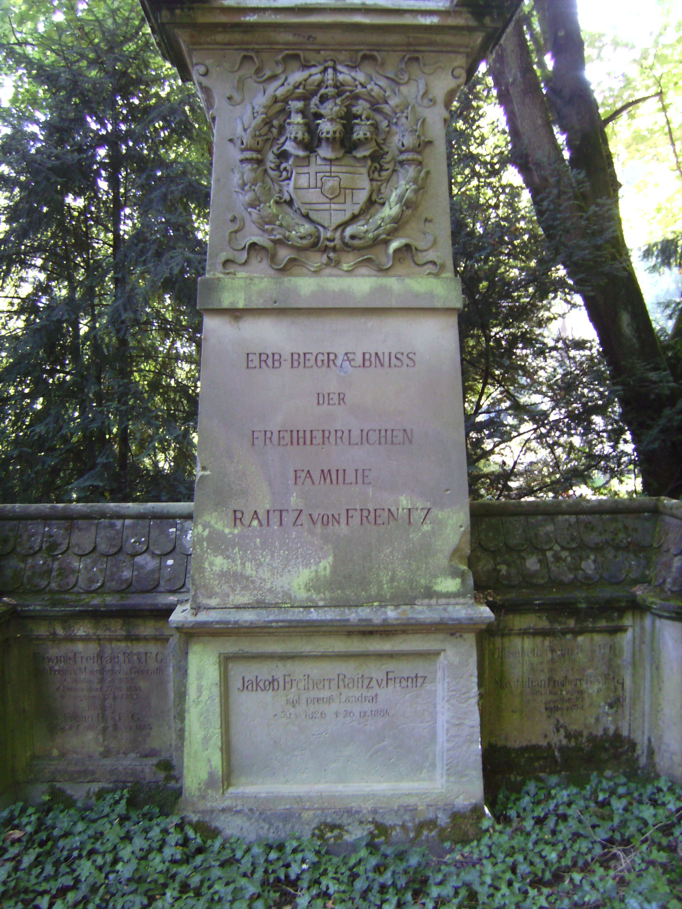 Grave of the barons' family Raitz von Frentz, especially Baron Jakob Raitz von Frentz, county commissioner and police commander of Koblenz at the cemetery of Koblenz